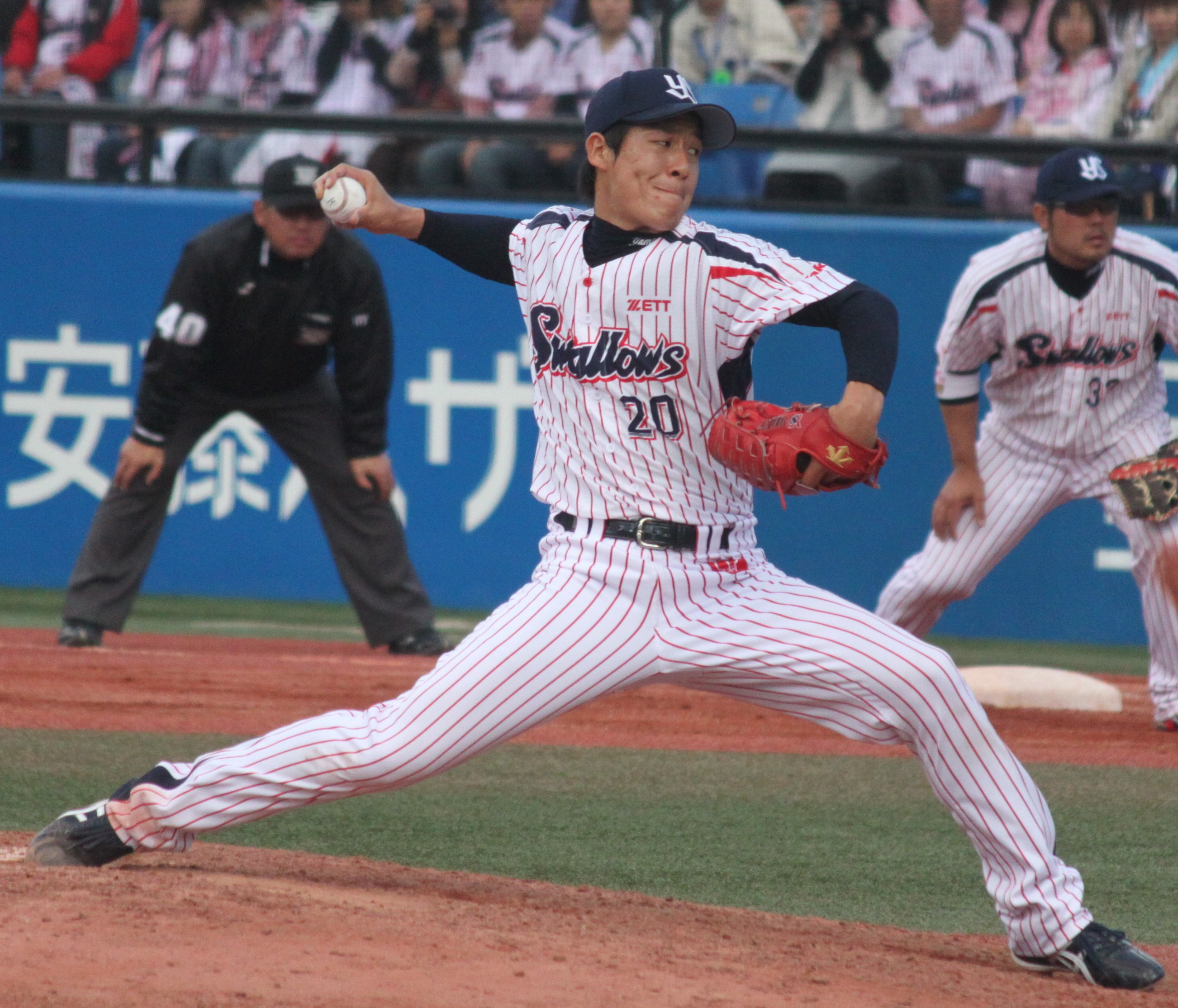 Tetsuya Yamamoto, pitcher of the Tokyo Yakult Swallows, at Meiji Jingu Stadium.